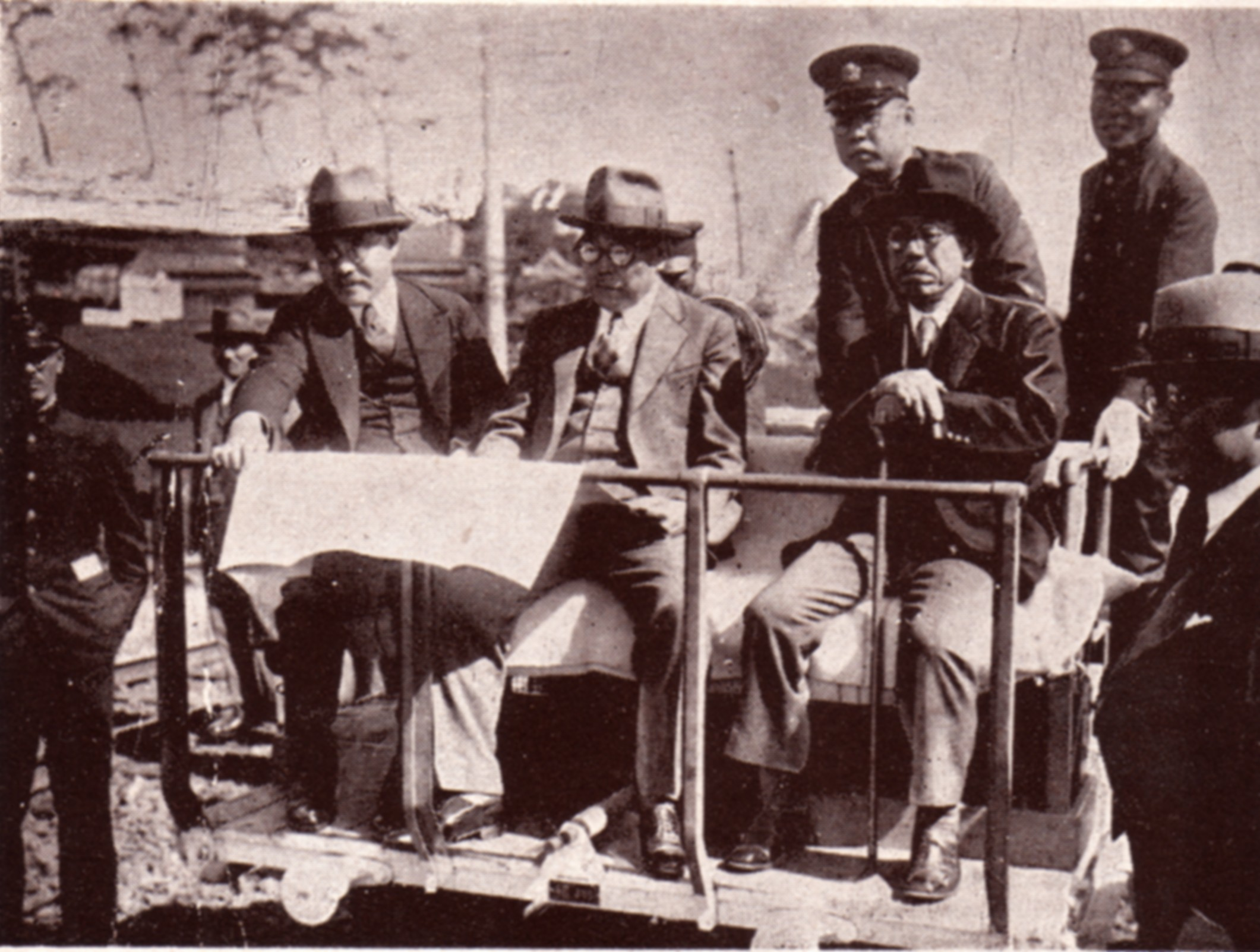 The minister of railways UCHIDA Nobuya visits planned site of Kammon railway tunnel